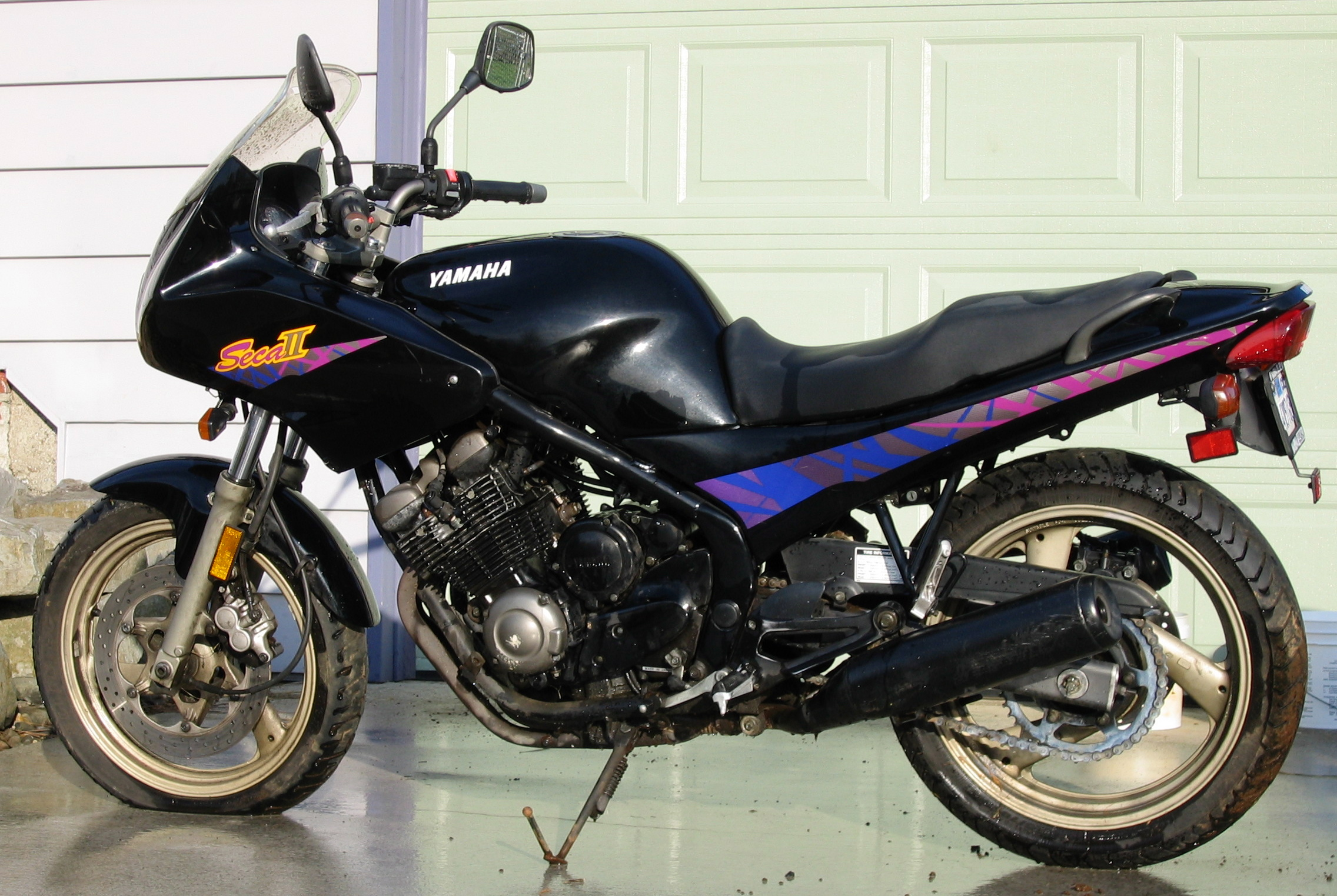 A 1996 Yamaha XJ600 (Seca II) street bike (With a flat front tire) (see motorcycle).